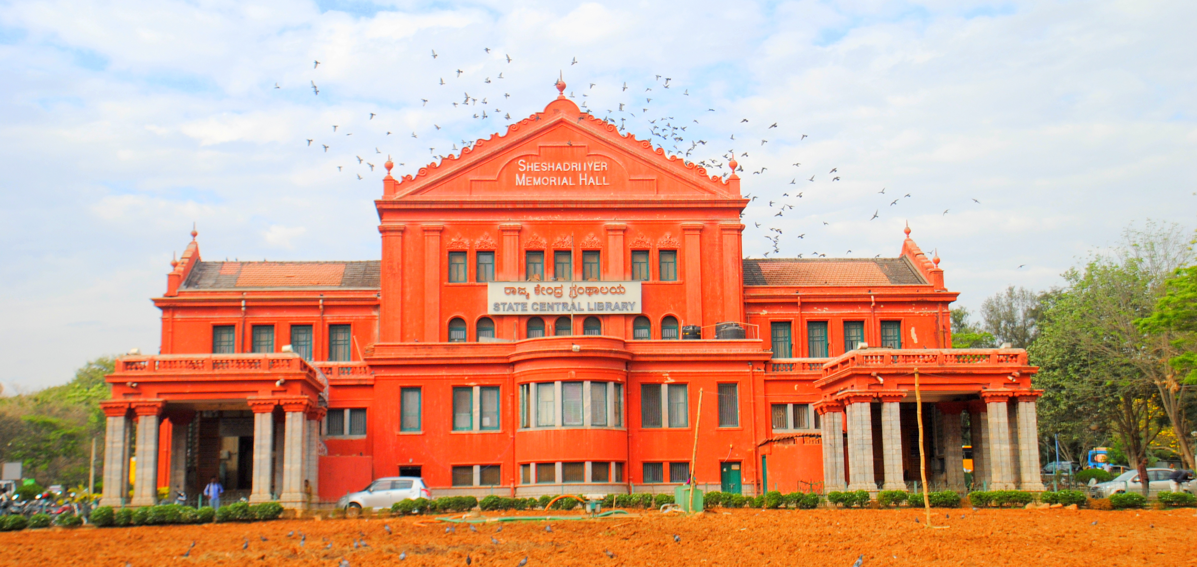 Library Cubbon Park revised